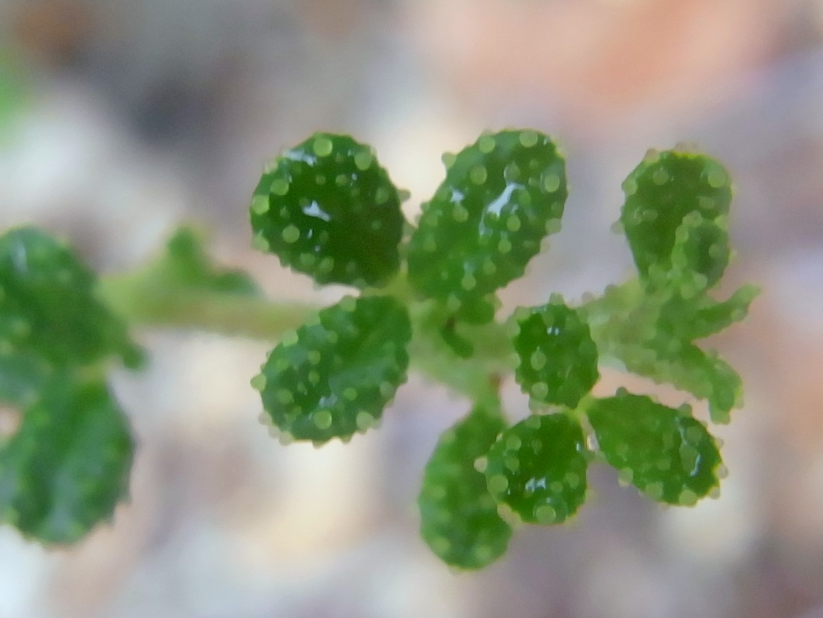 Zieria adenophora, labeled at Batemans Bay Botanic Gardens, Australia